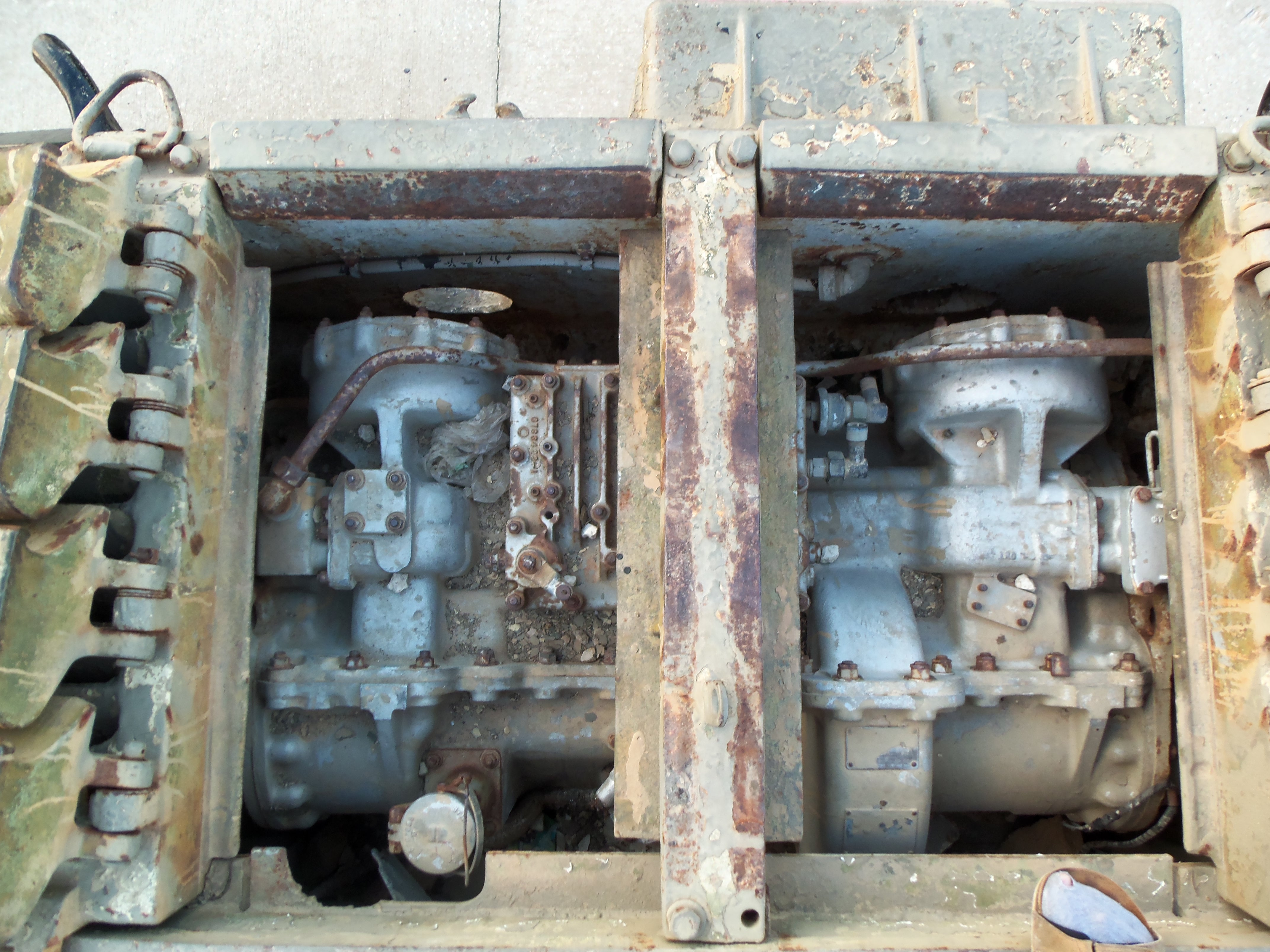 Armoured fighting vehicles in Har Adar, at the Harel Brigade memorial site